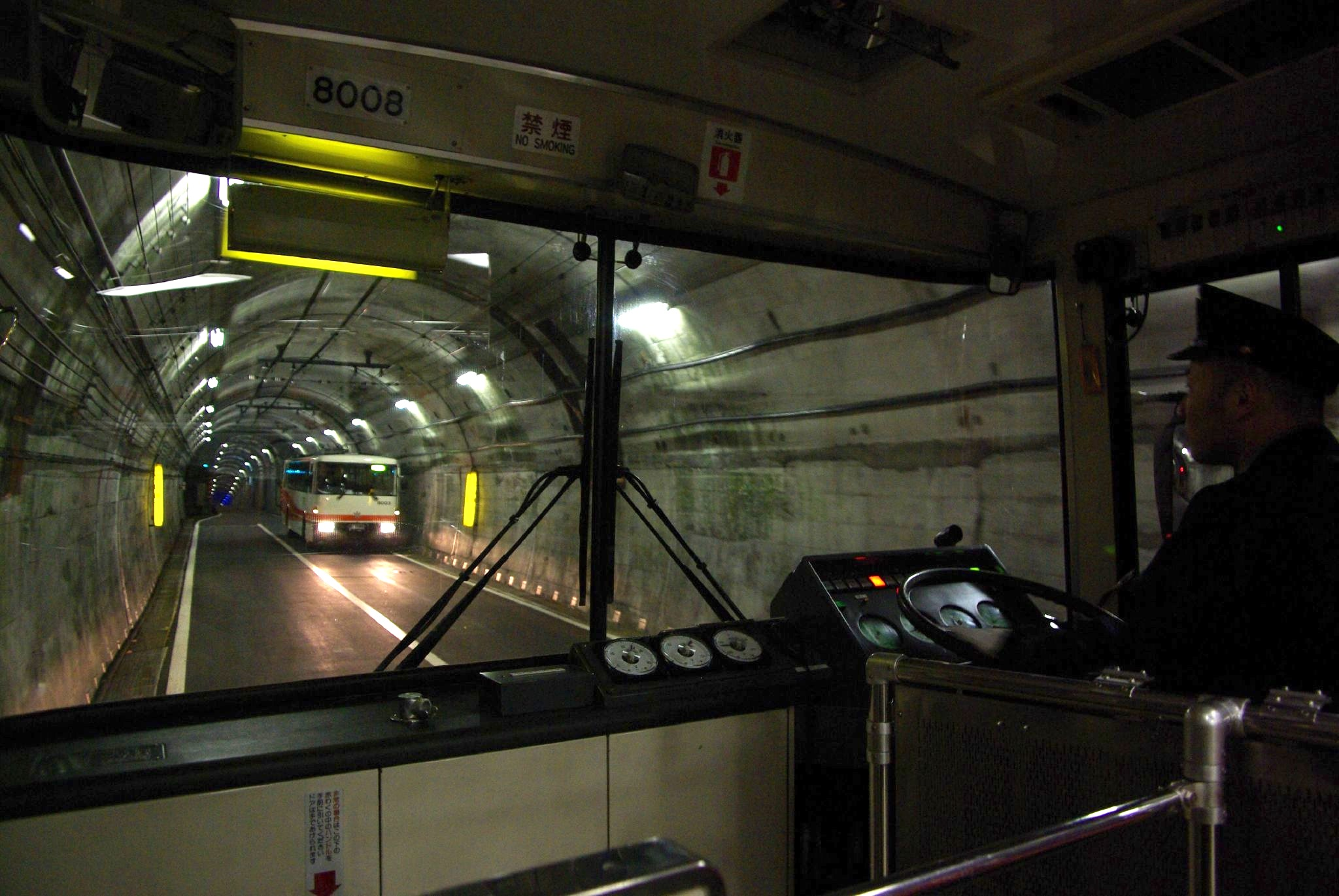 A view inside the tunnel on the Tateyama Tunnel Trolleybus line in Japan, looking out the front of a trolleybus about to pass a trolleybus travelling in the opposite direction. The tunnel opened in 1971, used by diesel buses, but was later fitted-out for trolleybuses, and trolleybus service began in April 1996. The entire line is underground.